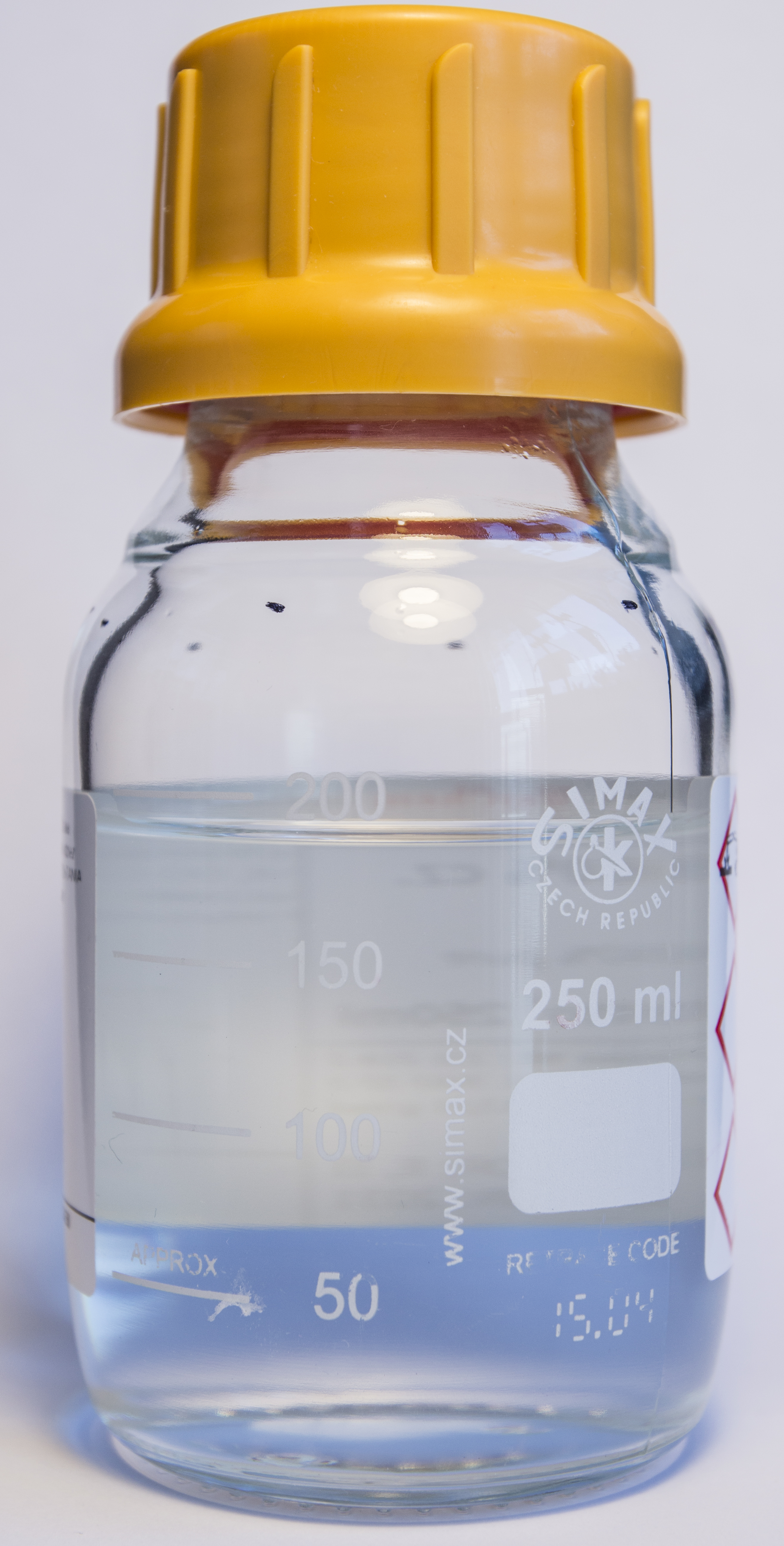 Bottle with 70% Nitric acid